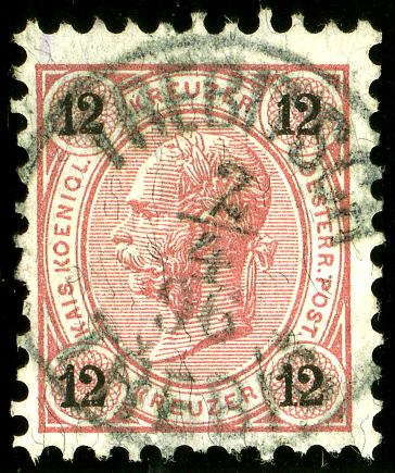 Austrian KK 12 kreuzer stamp, issue 1890, bilingual cancelled TREBITSCH - TŘEBIČ (Moravia) in 1896.